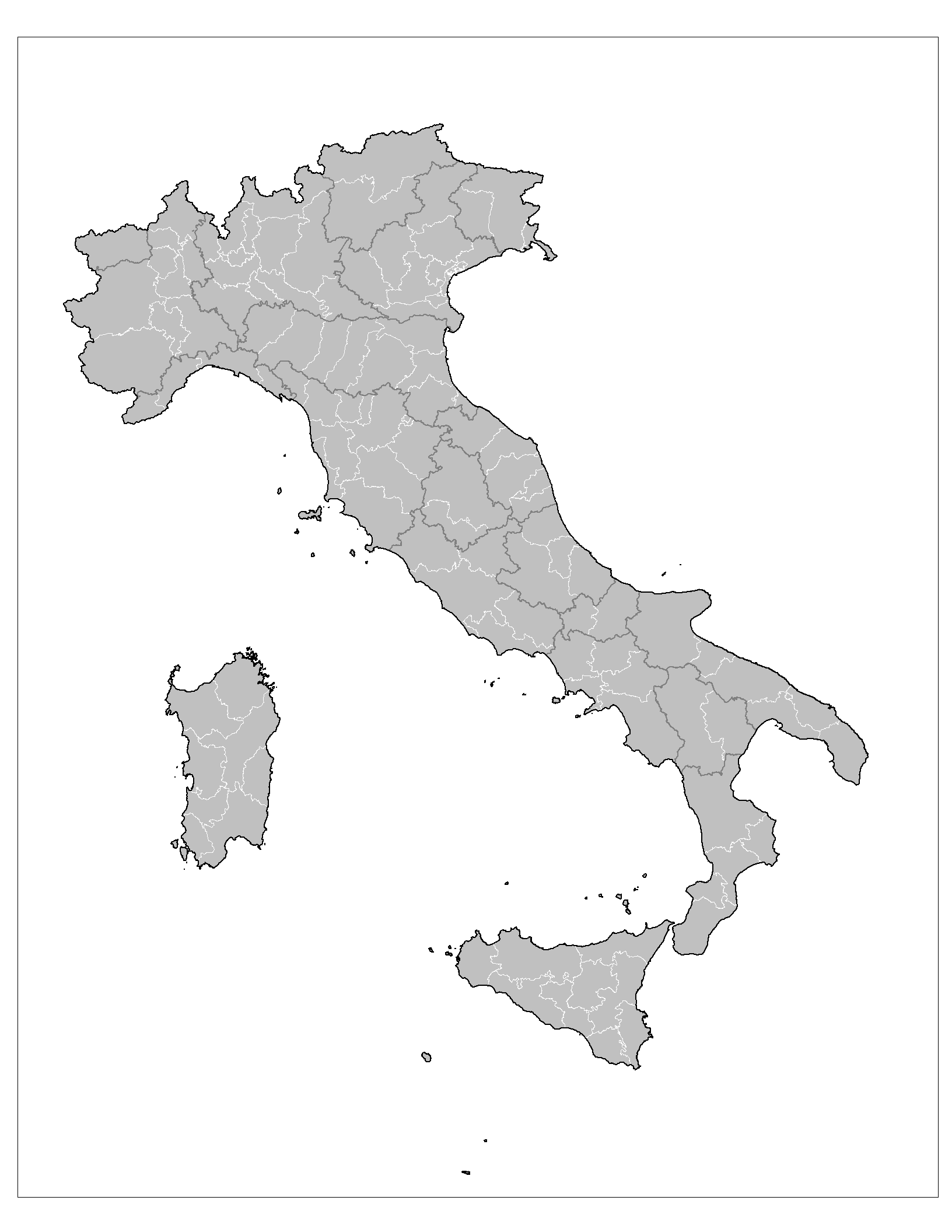 Map of the provinces of Italy. Created by Rarelibra 14:29, 29 November 2007 (UTC) for public domain use, using MapInfo Professional v8.5 and various mapping resources.